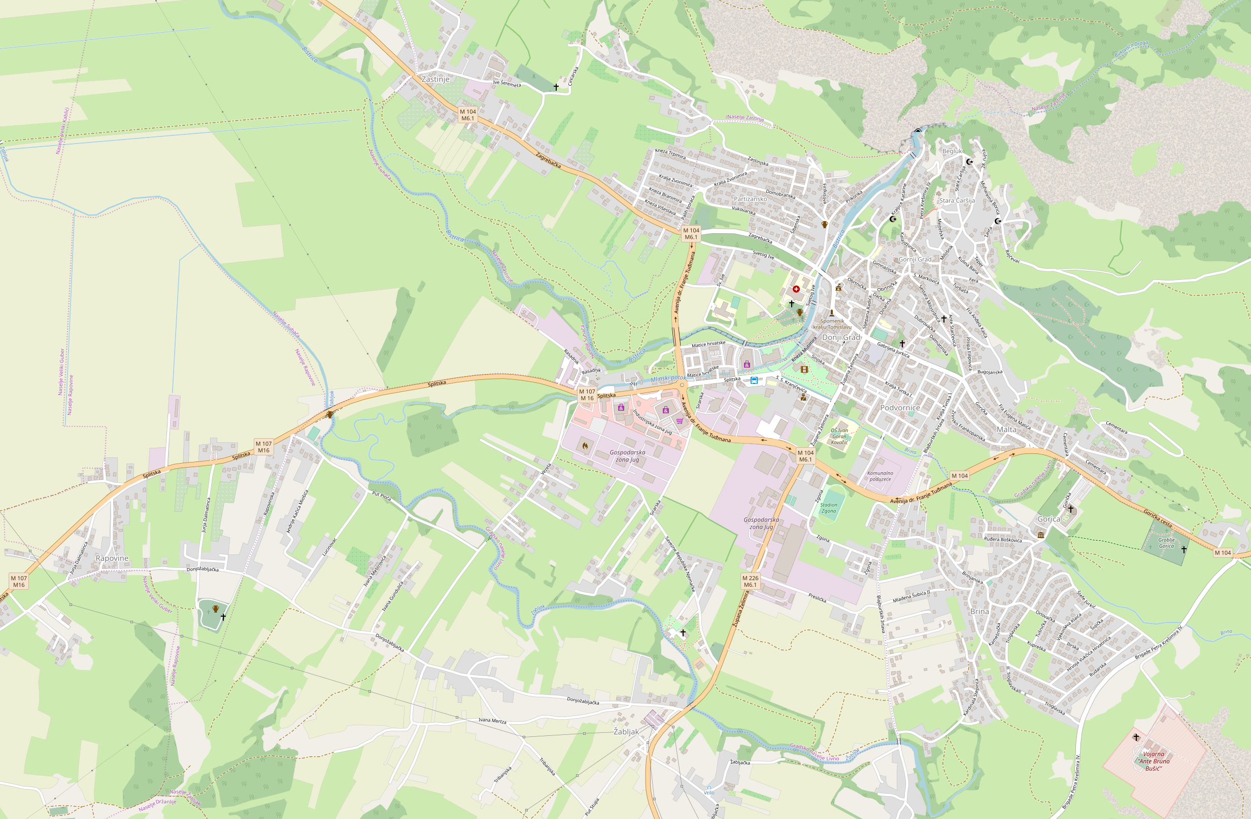 Map of Livno, Bosnia and Herzegovina